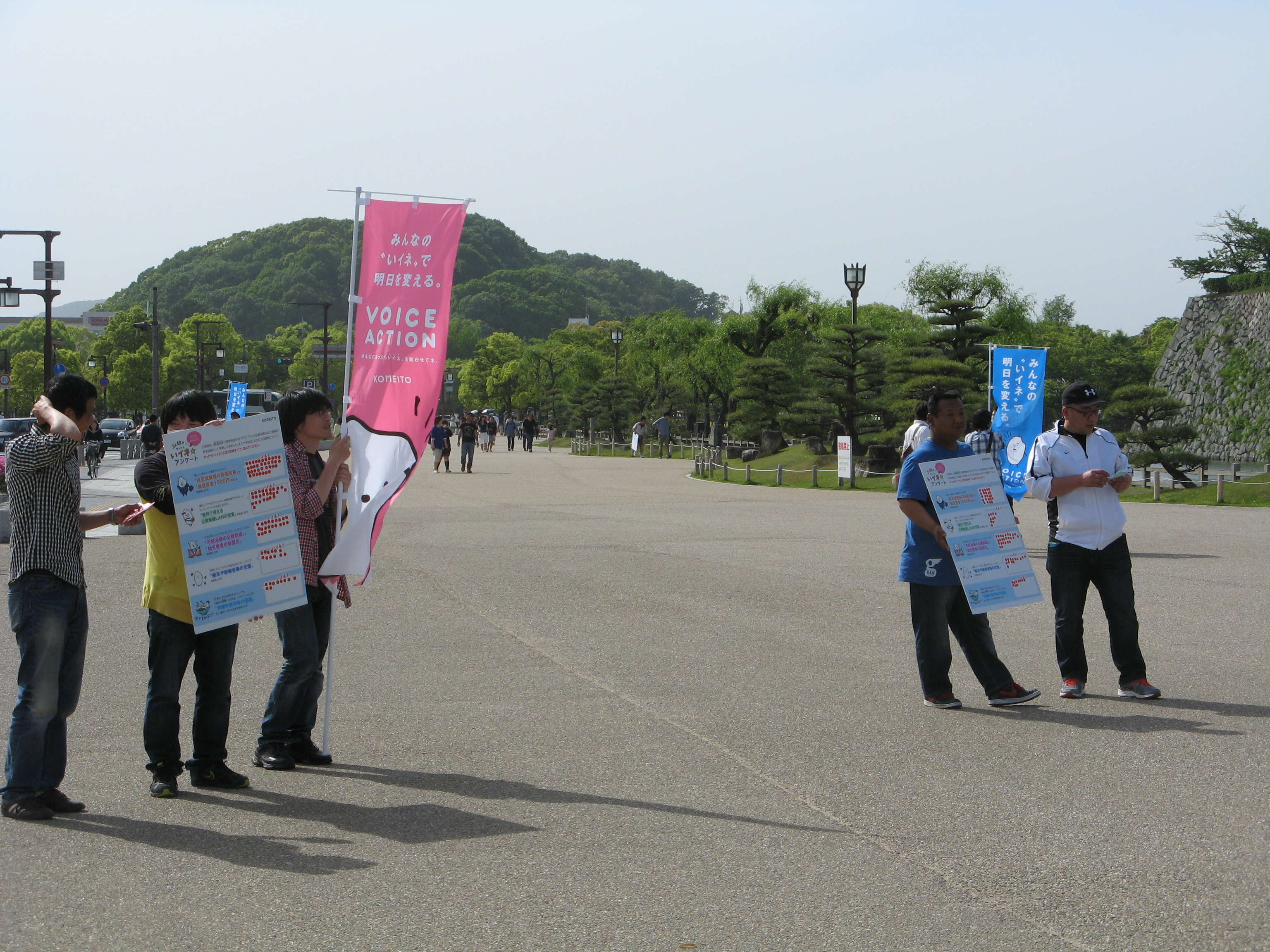 Komeitô activists canvassing in front of Himezi castle